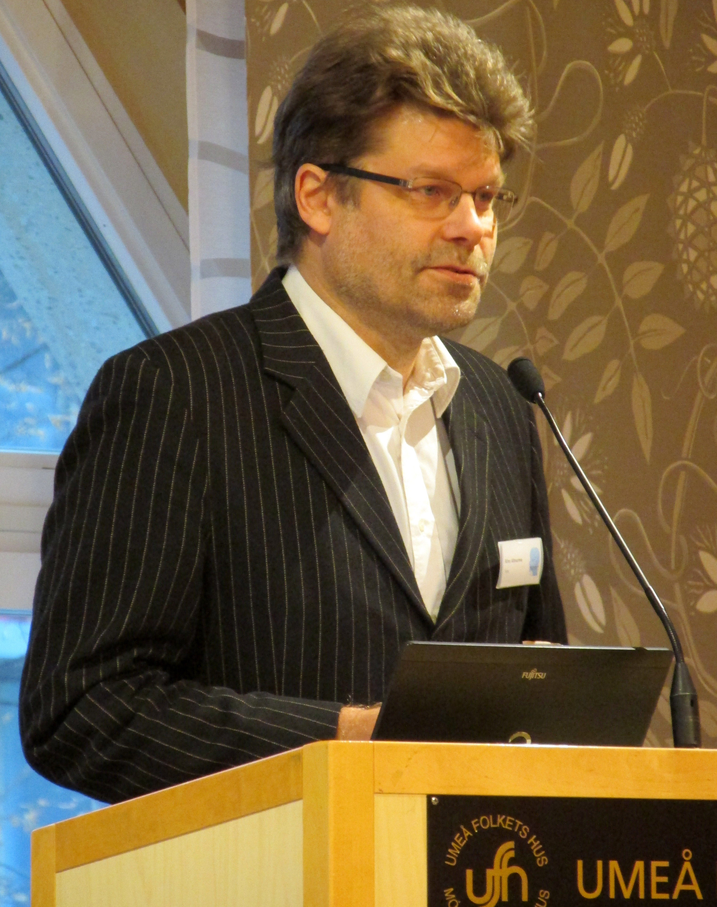 Estonian church historian Riho Altnurme in 2014 at Umeå during conference "Bordering the Monster?"